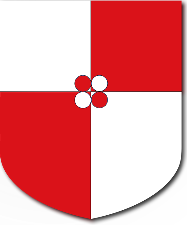 Aventurado shield